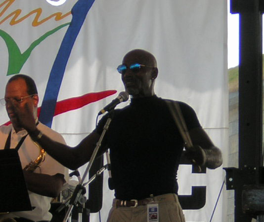 Picture of T. S. Monk on stage at the Newport Jazz Festival in Newport, Rhode Island, on August 13, 2005.